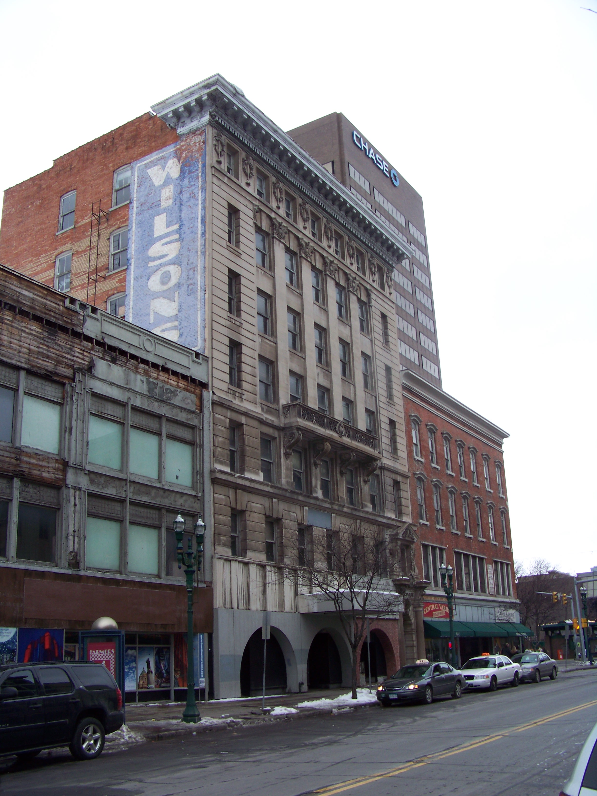 Wilson Bldg., Witherill Bldg. in the South Salina Street Downtown Historic District, Syracuse, NY